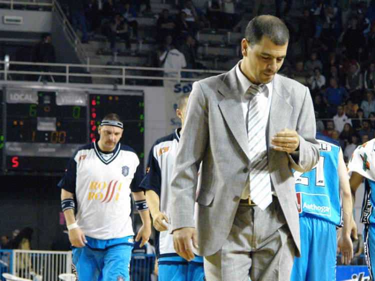 Coach Sergio "Oveja" Hernández makes his entrance to the court along with the players of Peñarol, at a Peñarol-Boca game.